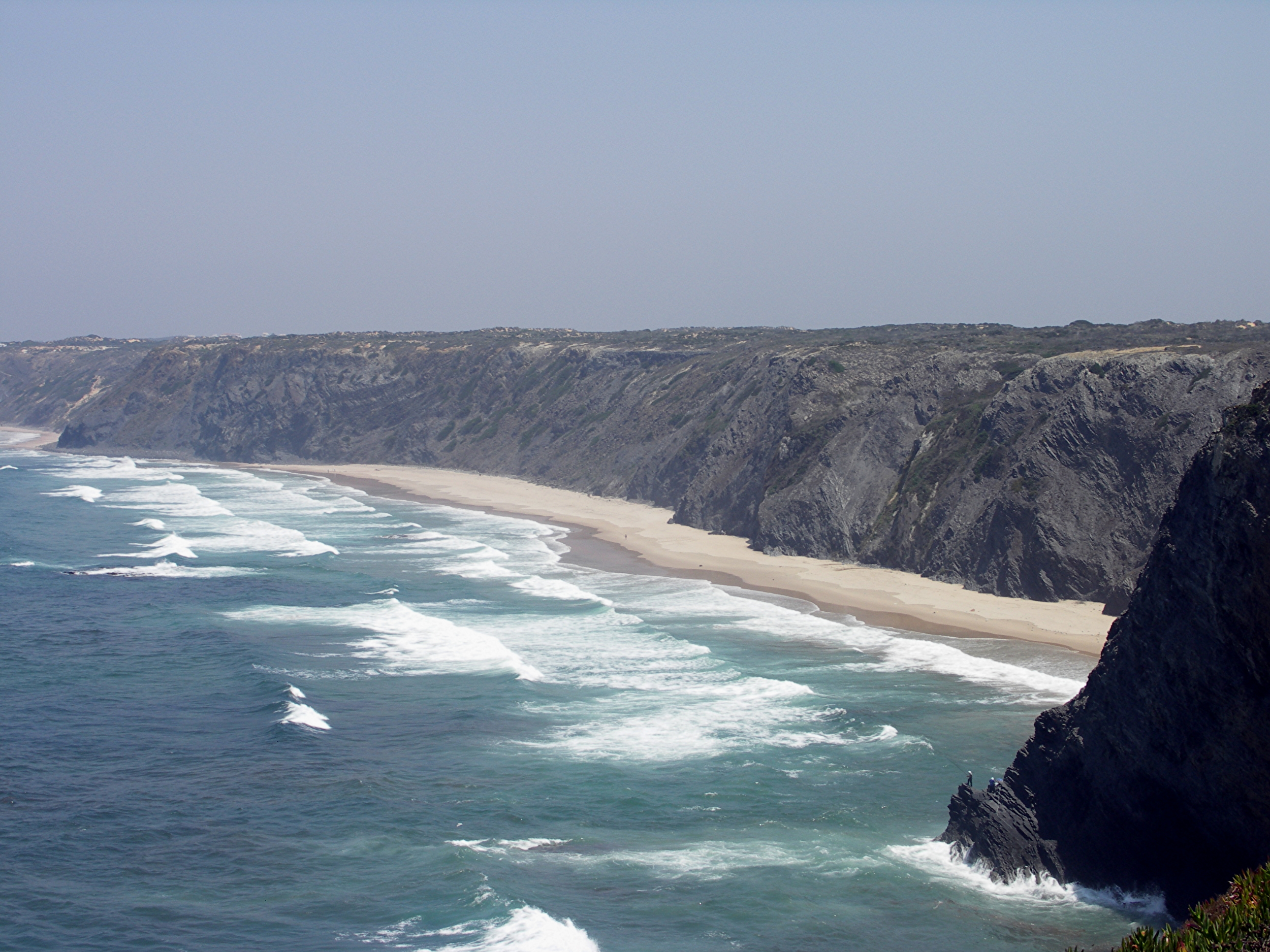 west coast of Portugal, Alentejo